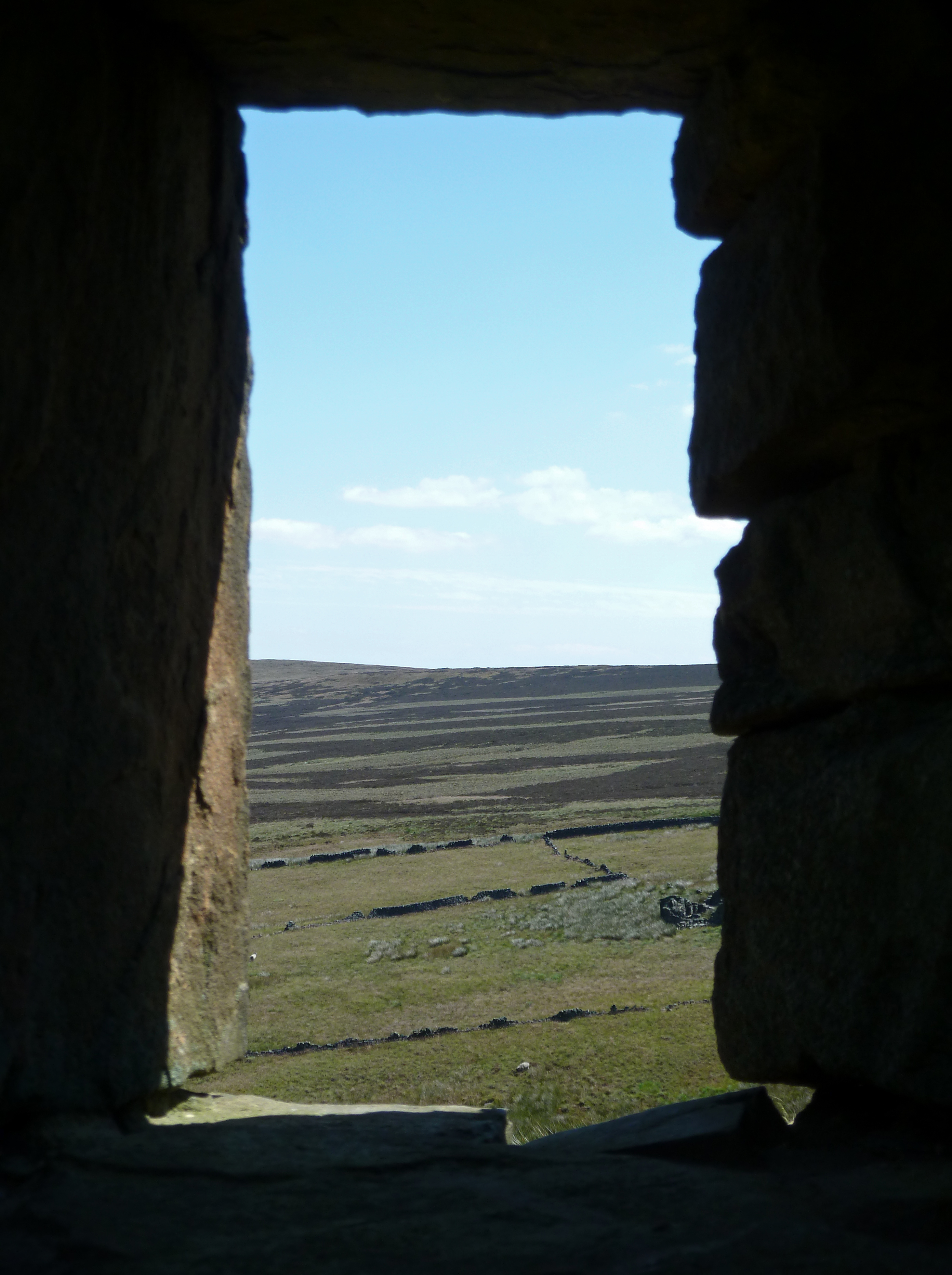 Top Withens